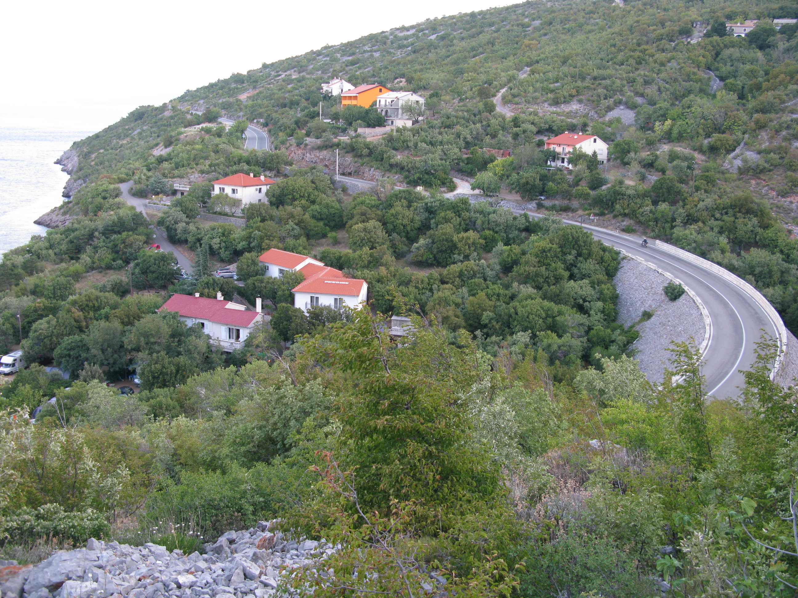 Bunica near Senj / Croatia / Adriatic Sea with Camping Bunica V.